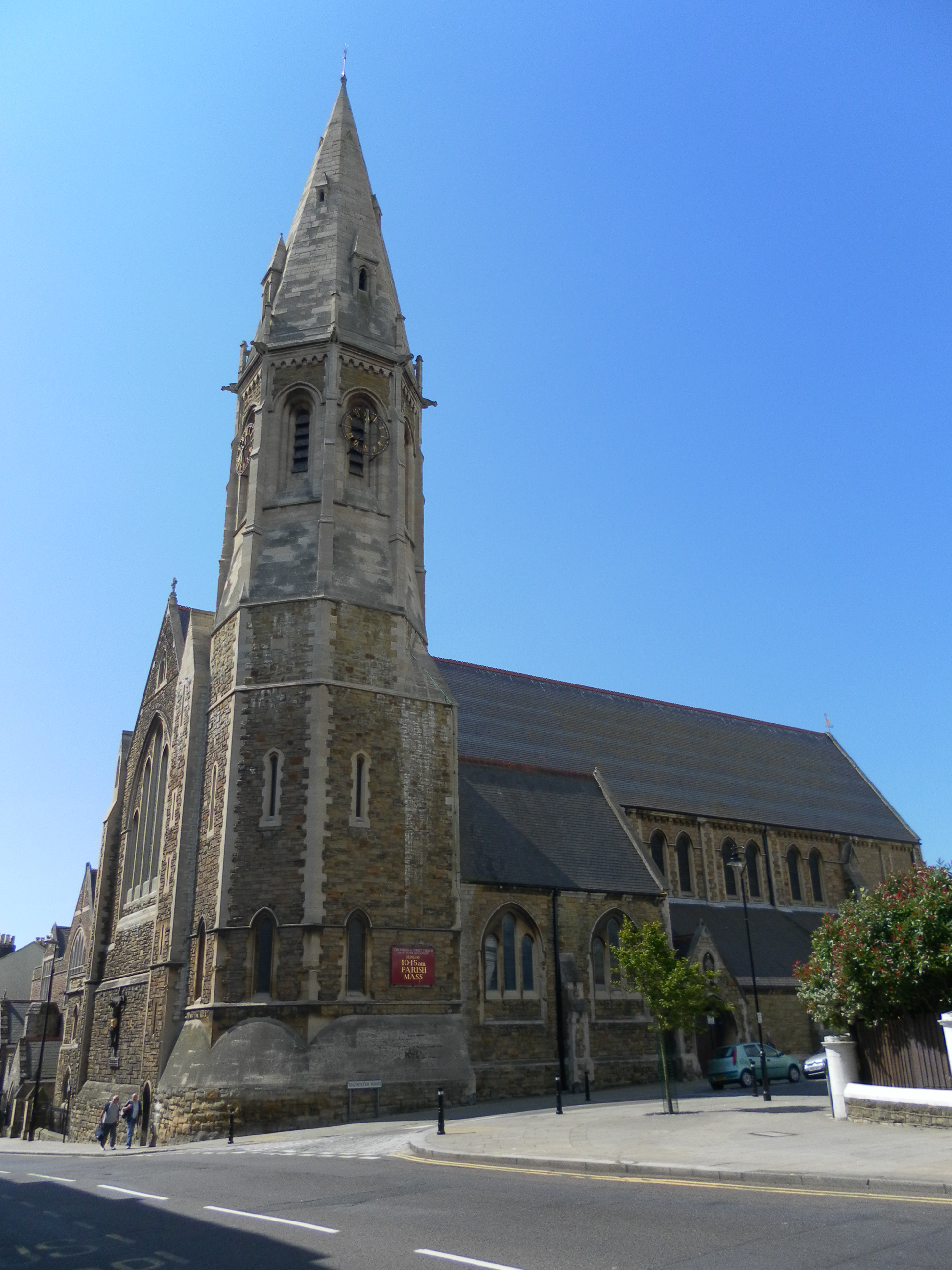 Christ Church, London Road, St Leonards-on-Sea, Hastings, East Sussex, England, seen from the northeast. Built between 1878 and 1881 in the Early English Gothic style by Sir Arthur Blomfield. Listed at Grade II* by English Heritage (NHLE Code 1286965)